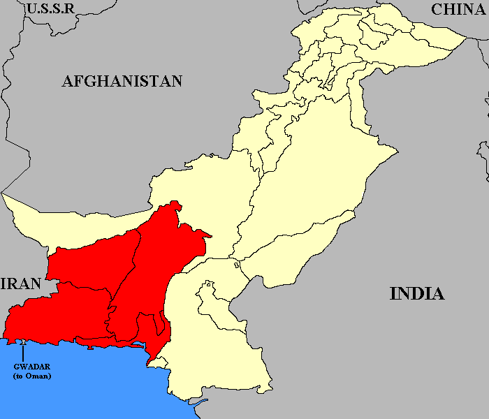 This map shows the relative position of the former Baluchistan States Union in Pakistan until it was dissolved in 1955.